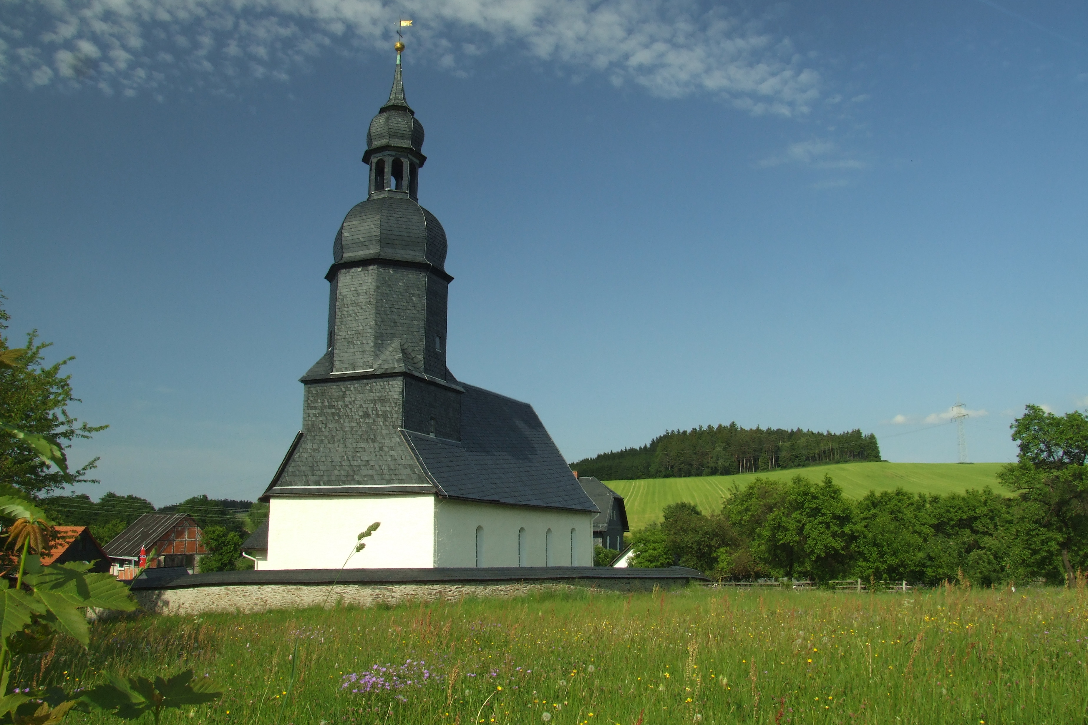 Church Dorfilm